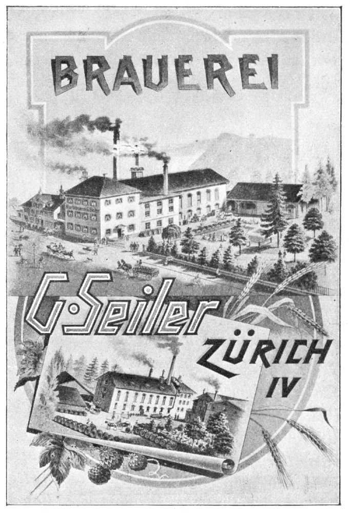 poster of brewery Seiler in Zürich, Switzerland